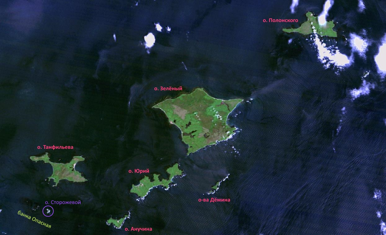 Storozhevoy Island on the satellite image of the Habomai Islands